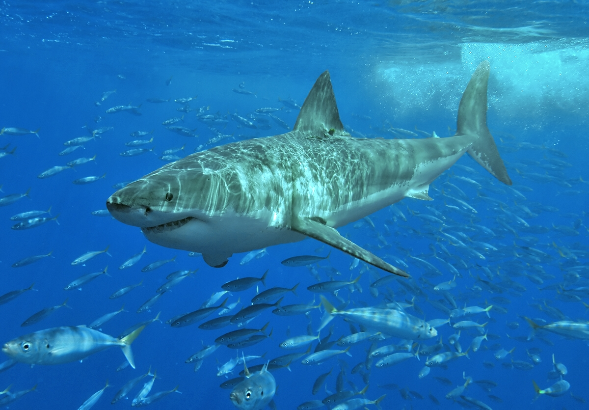 Great white shark at Isla Guadalupe, Mexico, August 2006. Shot with Nikon D70s in Ikelite housing, in natural light. Animal estimated at 11-12 feet (3.3 to 3.6 m) in length, age unknown.